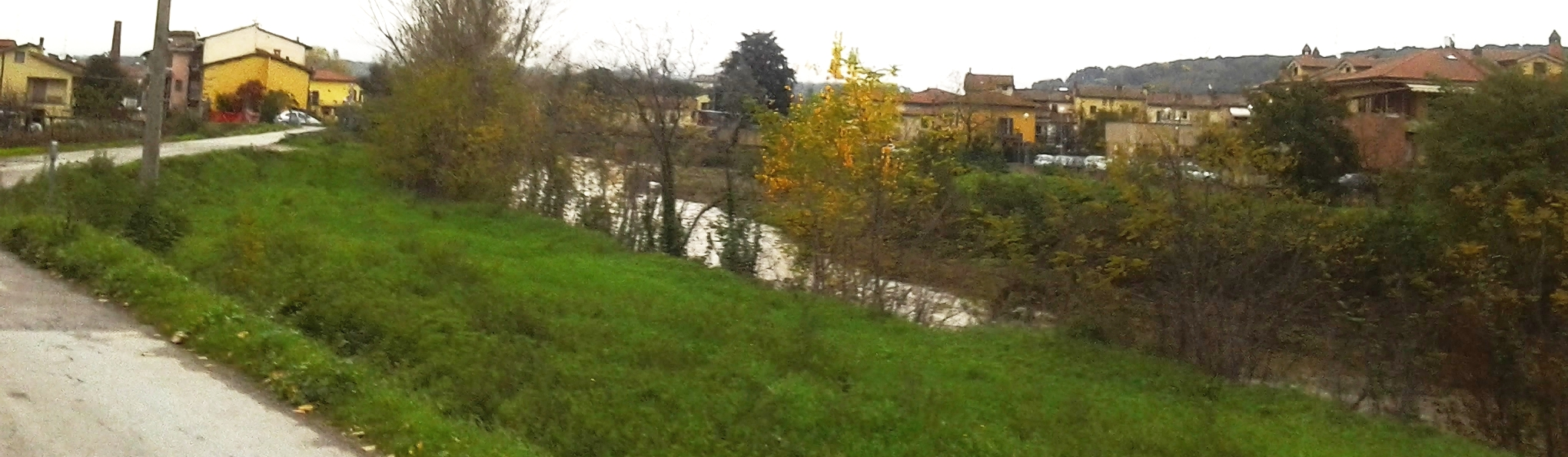 Levane in Valdambra, province of Arezzo (Tuscany), Italy.